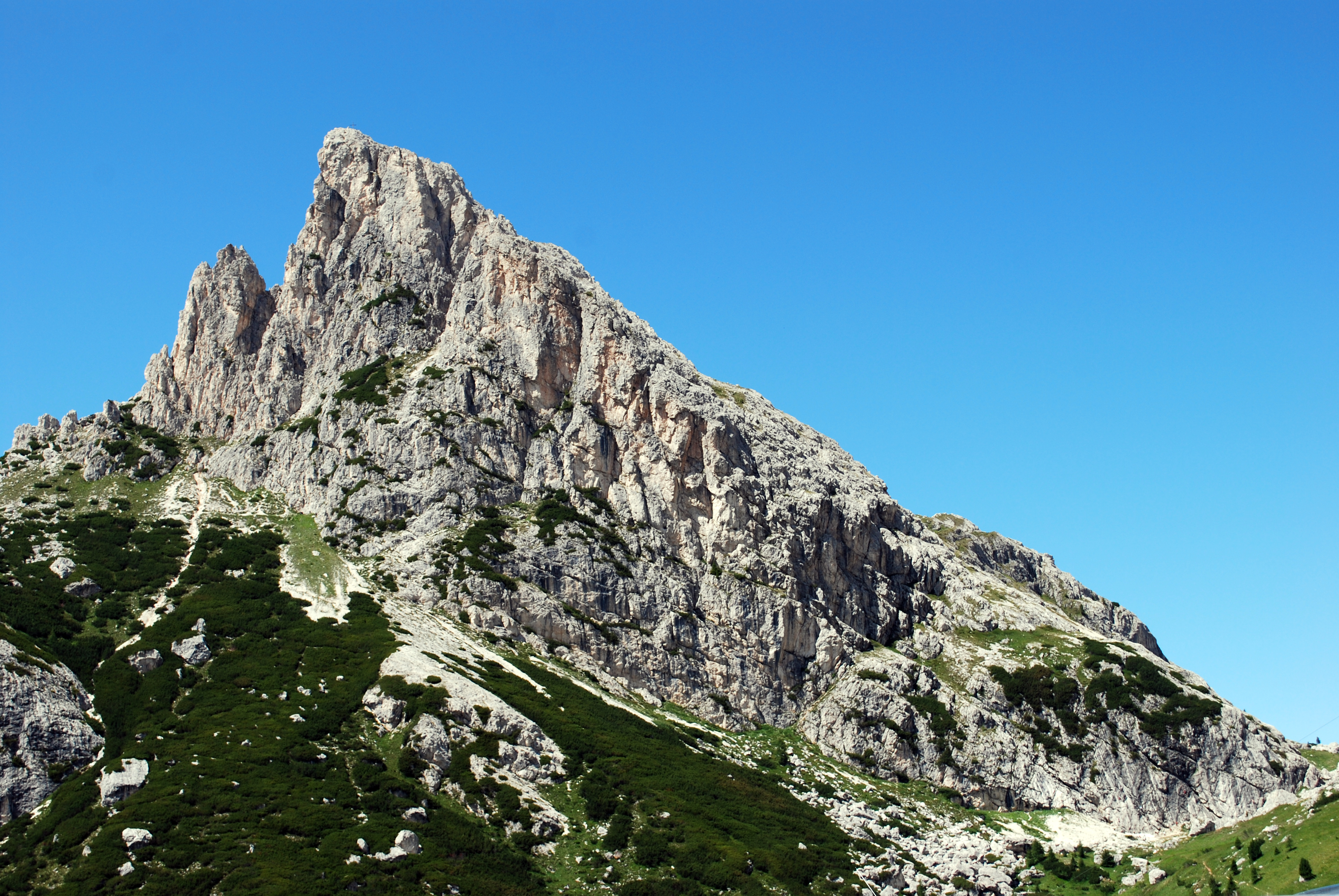 Hexenstein from Passo di Falzarego (from East)